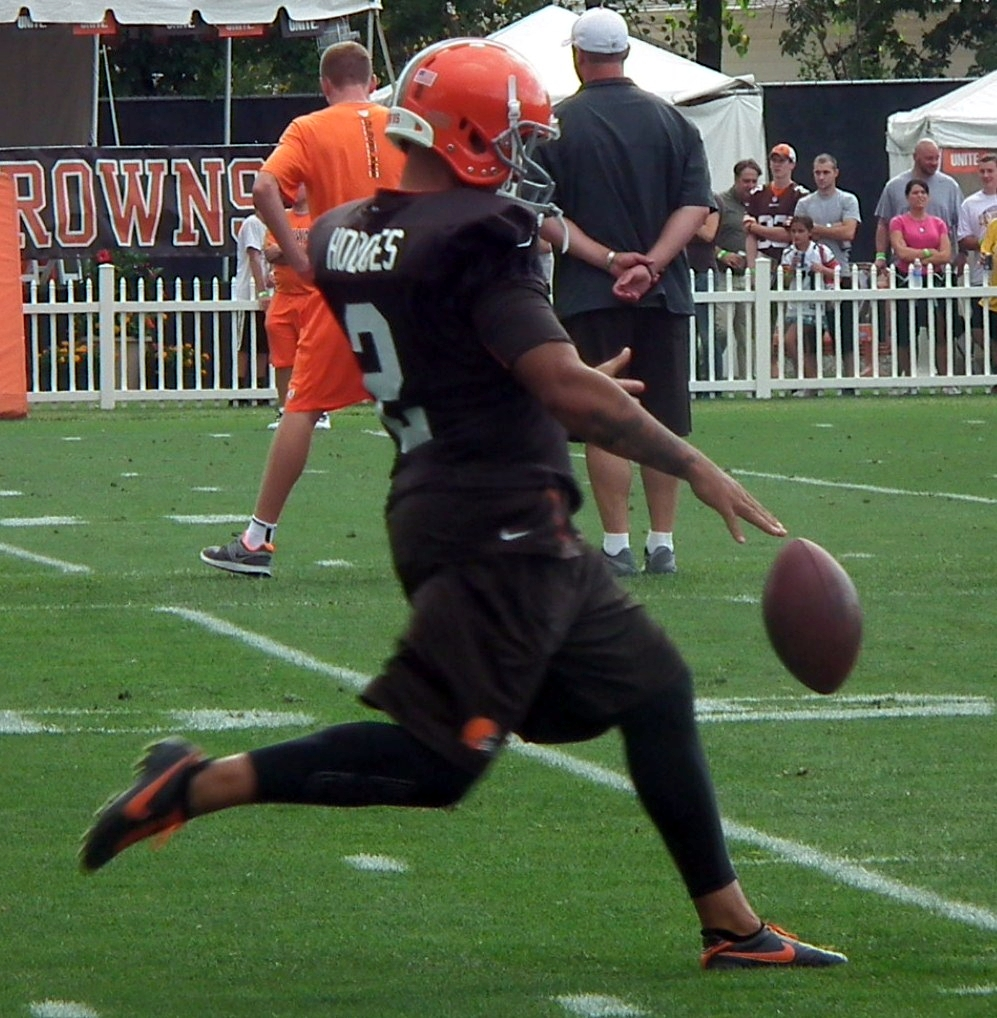 Reggie Hodges of the Cleveland Browns, July 2012